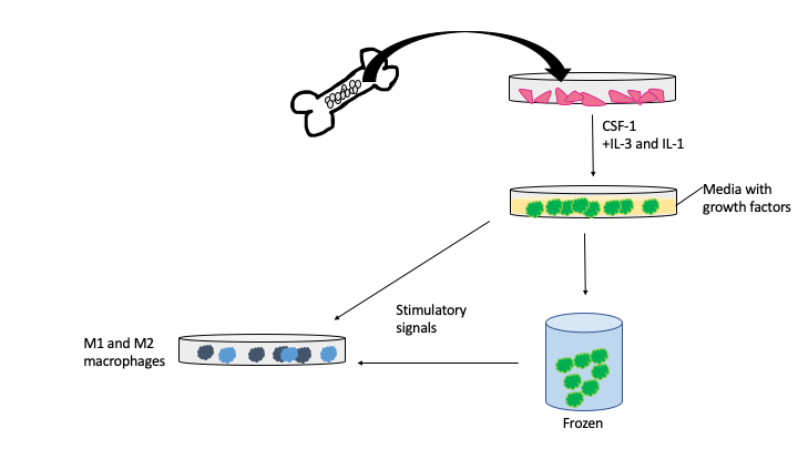 Process of generating bone marrow derived macrophages